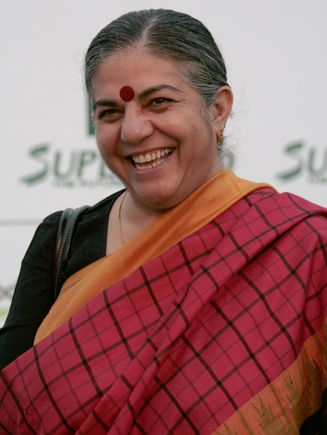 Vandana Shiva on the "green carpet" for the Save the World Awards 2009 (Zwentendorf Nuclear Power Plant, Lower Austria).